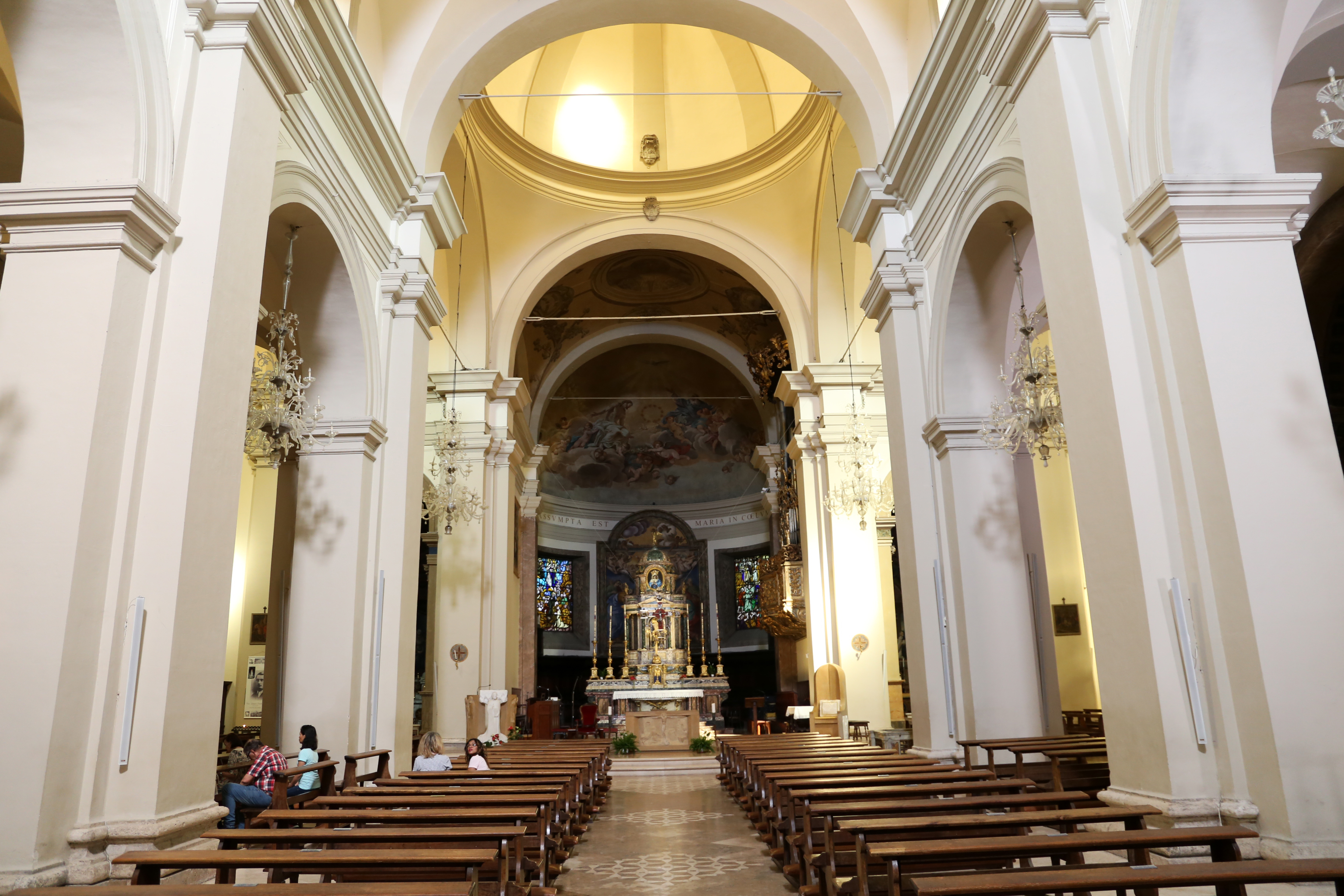 Cathedral (Terni)